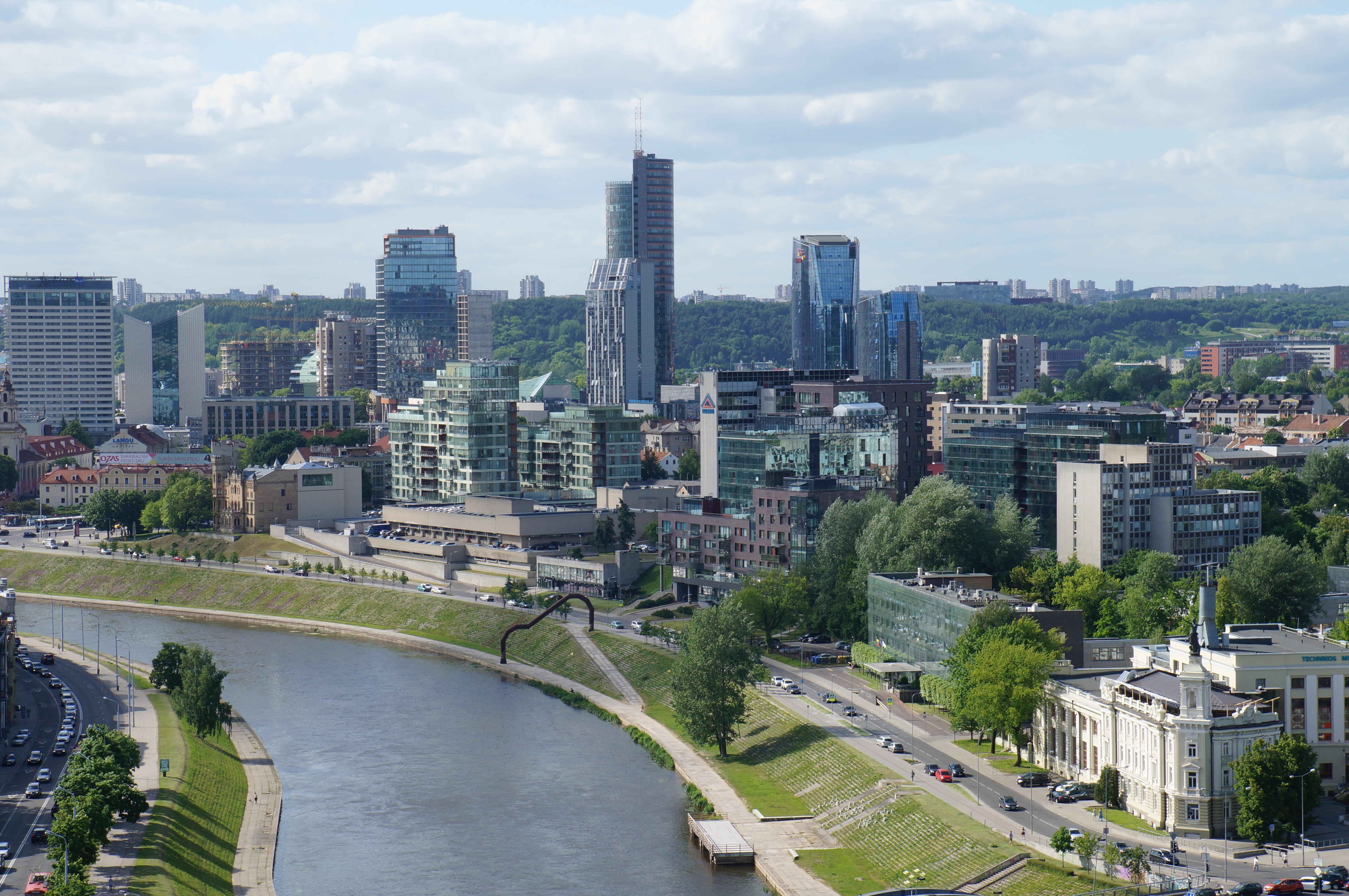 View from Gediminas over Vilnius.